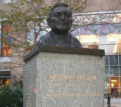 Richard Tucker monument in New York